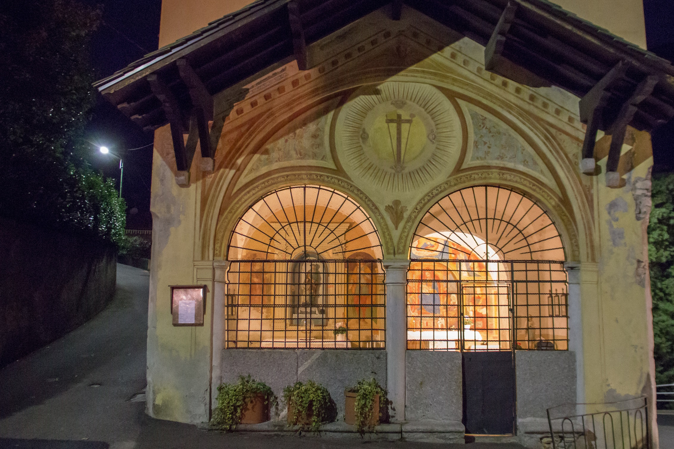 Little church in Asnigo, Cernobbio This is a photo of a monument which is part of cultural heritage of Italy.